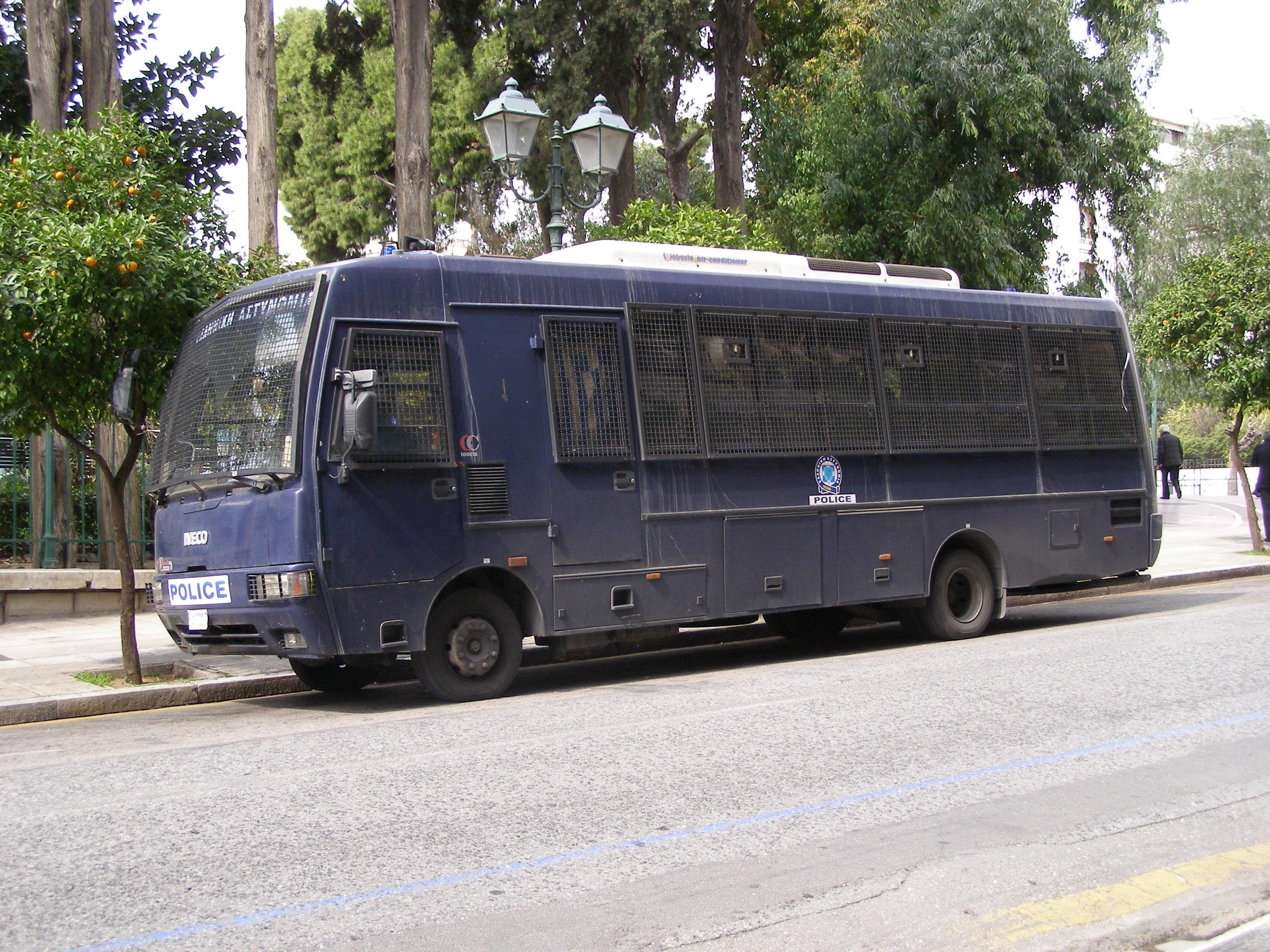 Athens - police vehicle